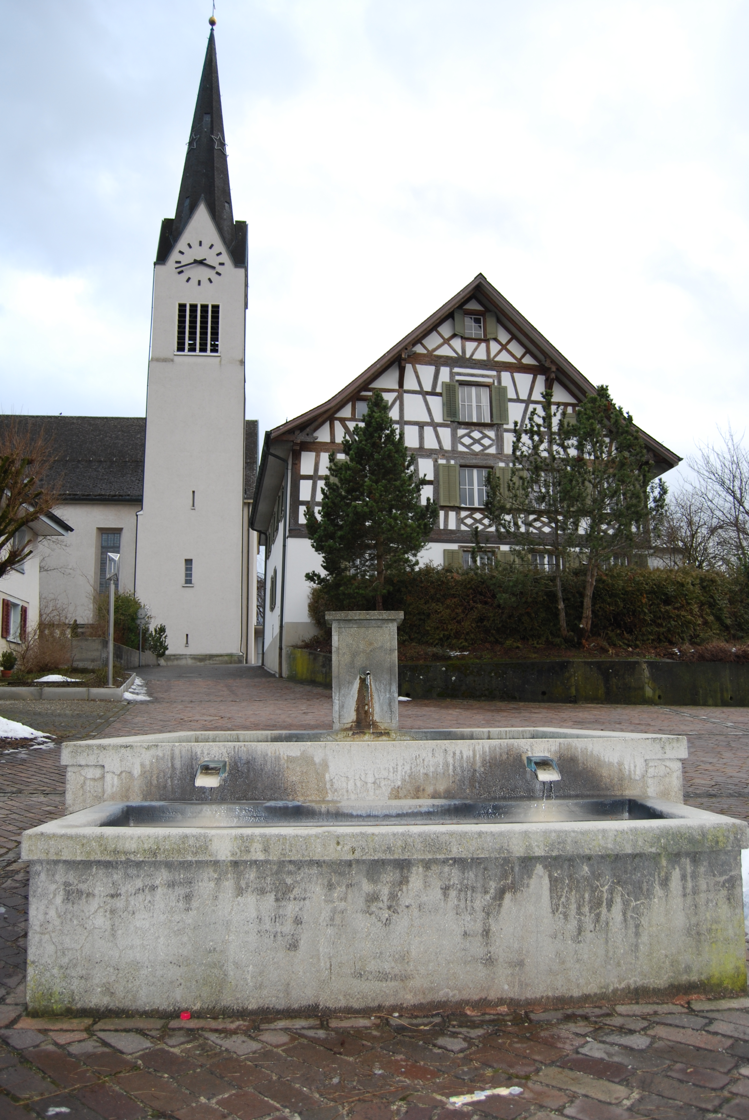 Catholic church of Aadorf, canton of Thurgovia, SwitzerlandEsperanto: Katolika preĝejo de Aadorf, Kantono Turgovio, Svislando